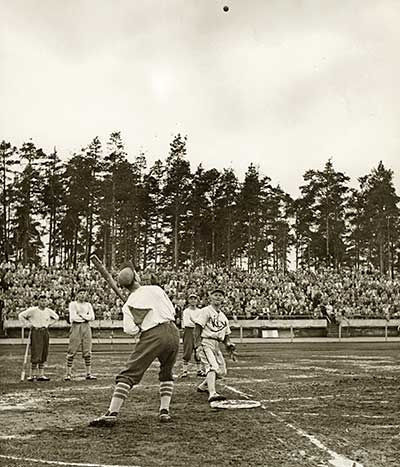 Pesäpallo player Eino Kaakkolahti of Jyväskylän Kiri passing in 1958